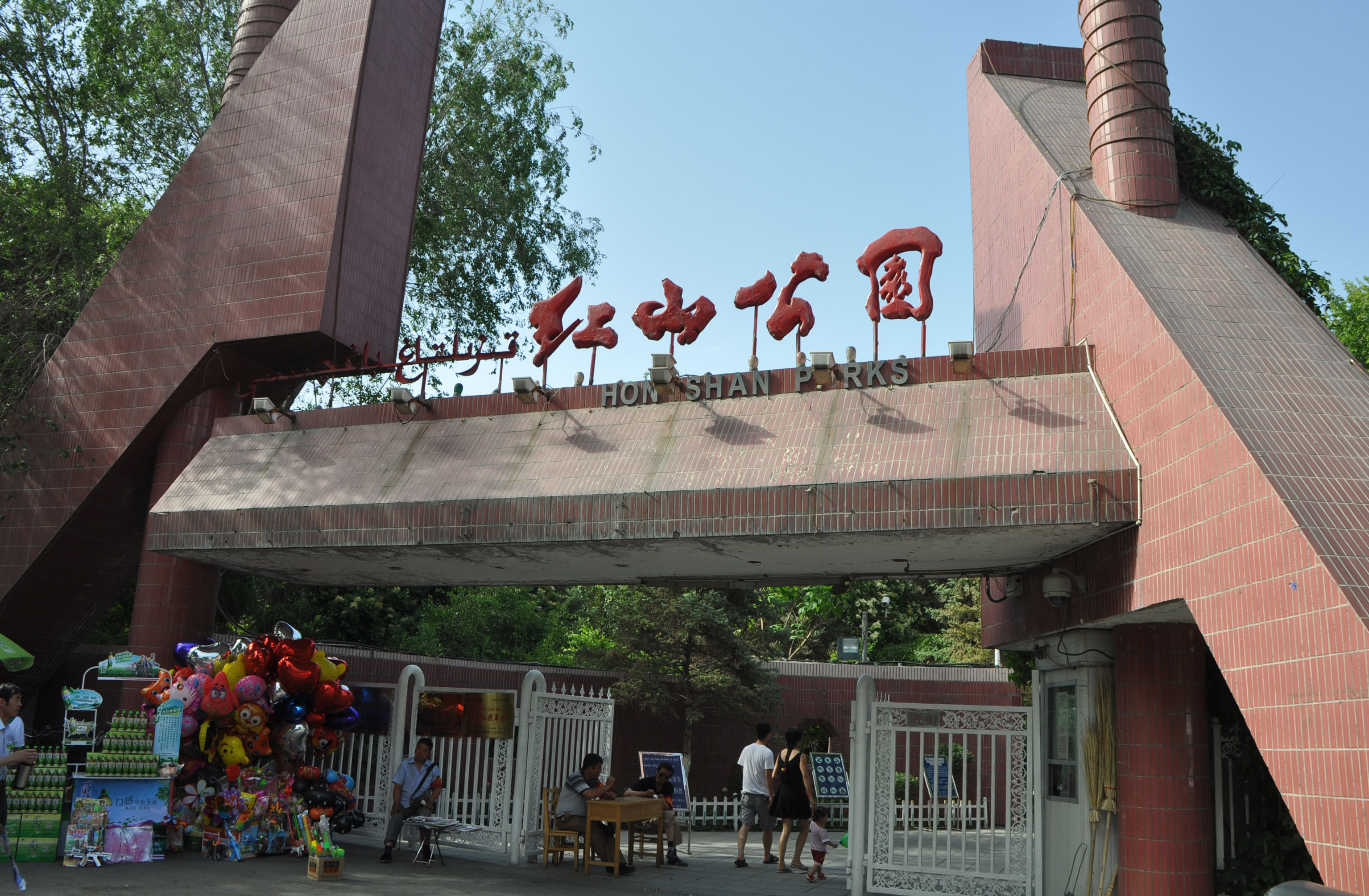 The entrance to Hongshan Park, Urumuqi, China